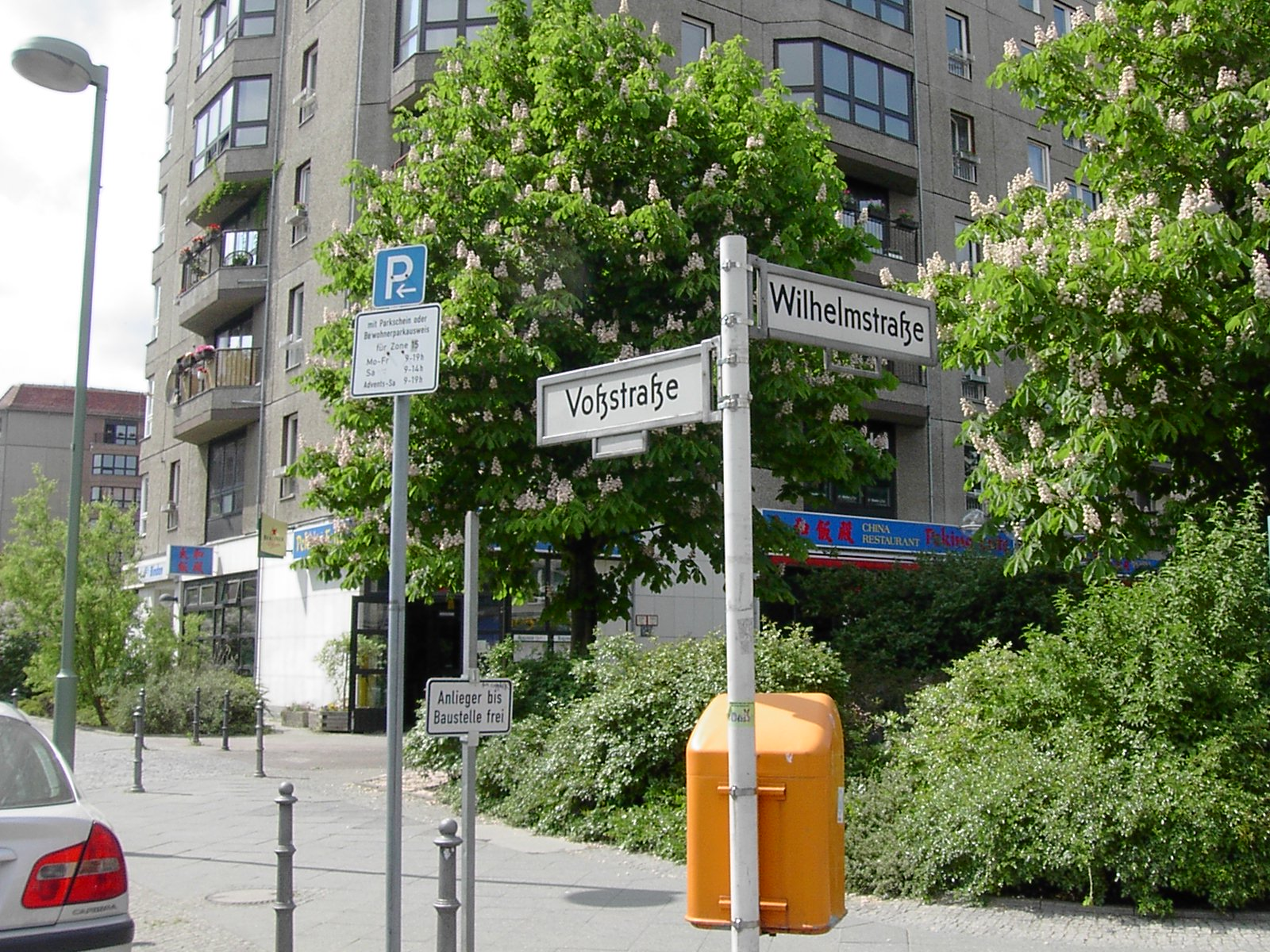 This is the former site of the Reich Chancellery (Reichskanzlei); today, it is the corner of Wilhelmstraße and Voßstraße. It is occupied by an apartment block and a Chinese restaurant. Postwar German governments have not allowed any memorialisation of the site.